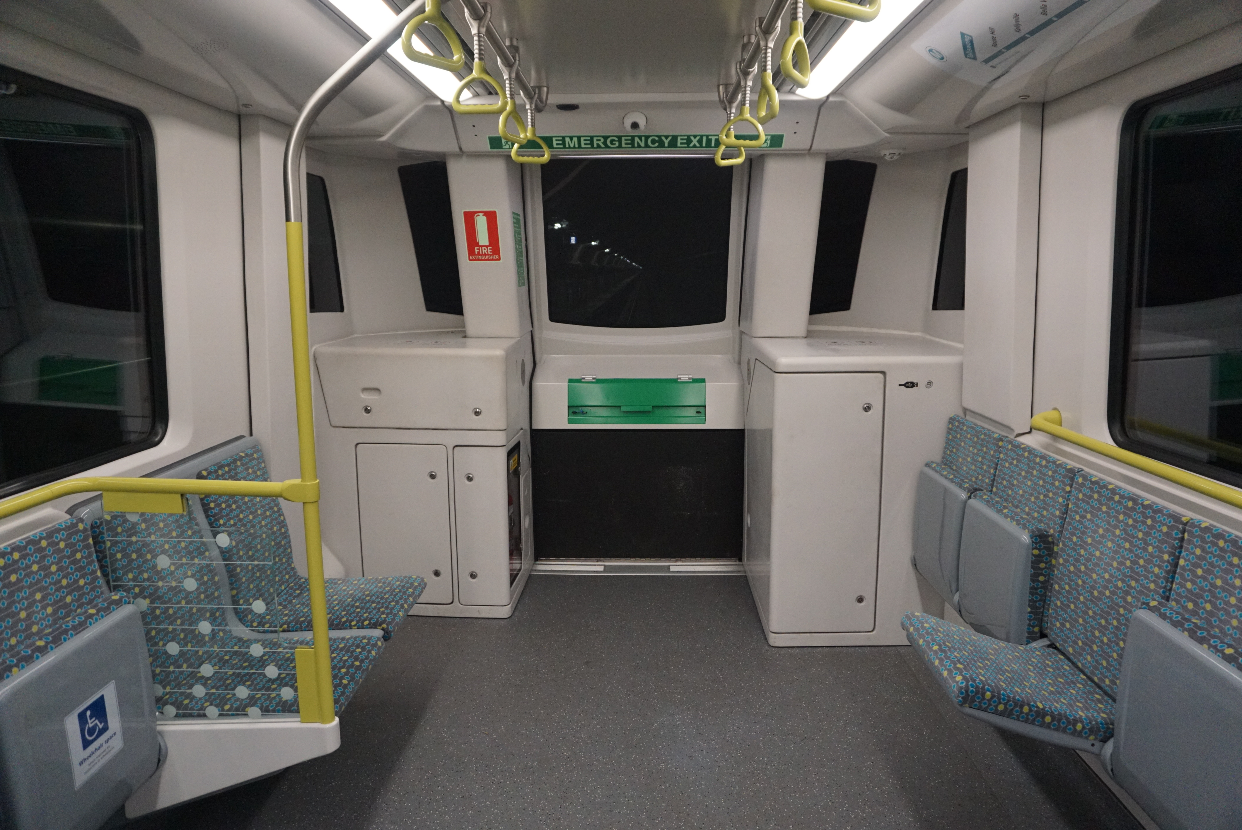 Sydney Metro Alstom Metropolis Driverless Train